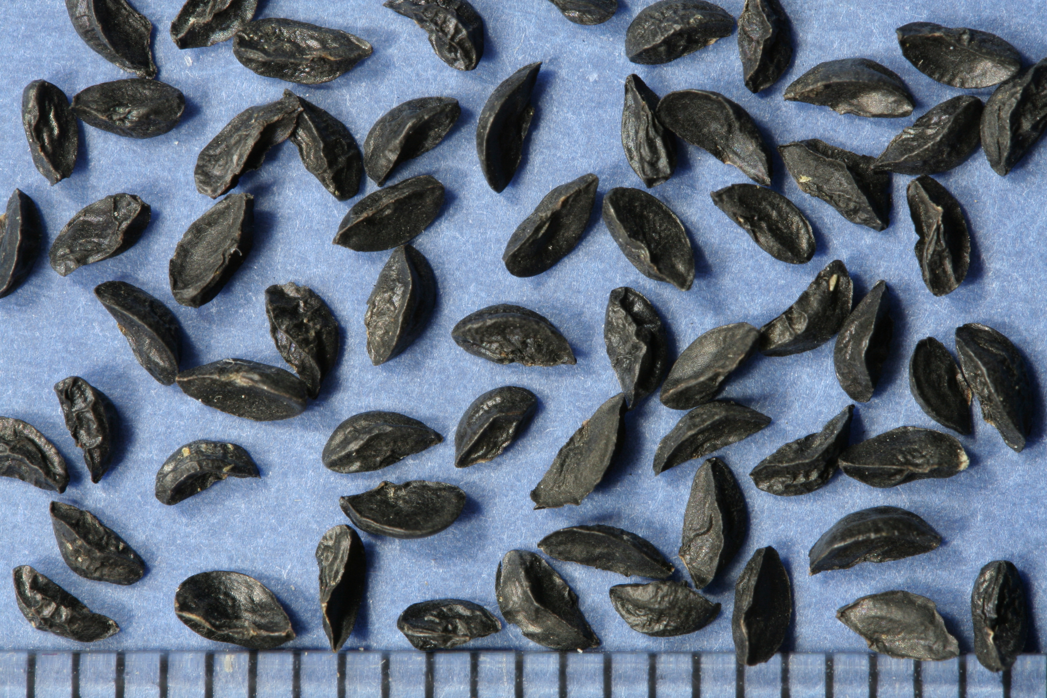 chives